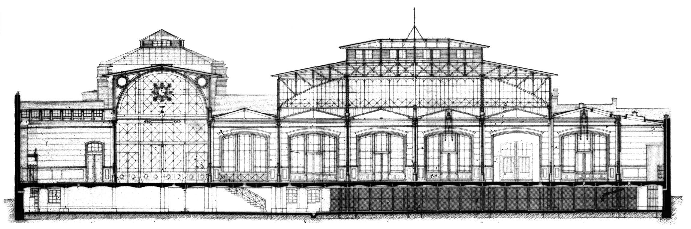 Berlin - market hall II, section market hall